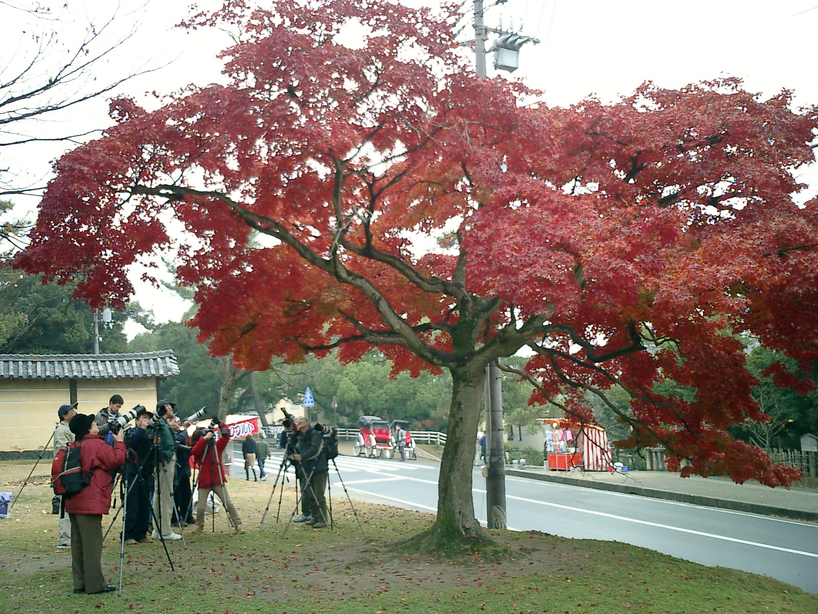 Nara, Japan